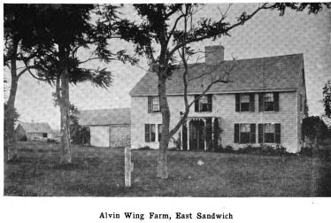 My copy of an image of the Wing Fort House from: E. G. Perry, A Trip Around Cape Cod (1898), pg. 46